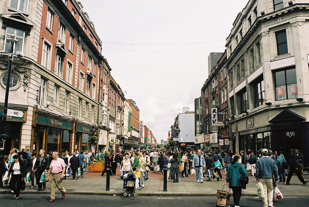 Dublin. Year 2000